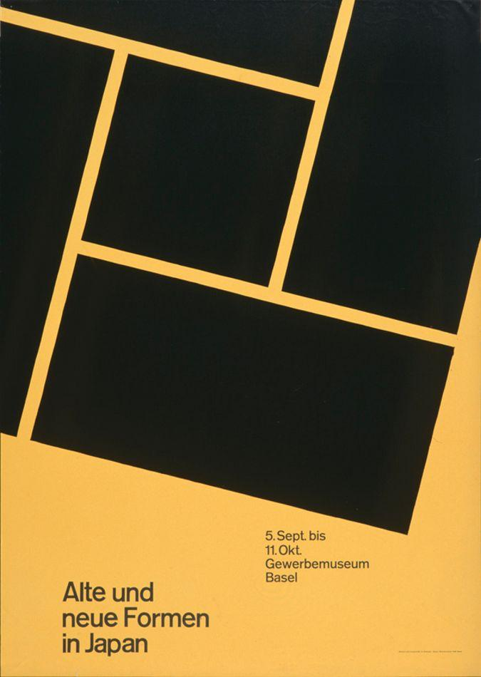 Poster designed by Armin Hofmann for an exhibition at the Gewerbemuseum Basel (Museum of Arts and Crafts).